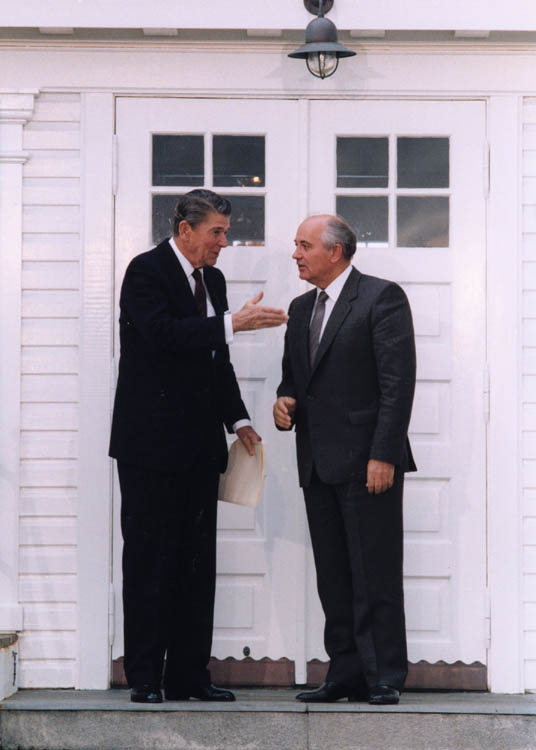 C37435-18, President Reagan greets Soviet General Secretary Gorbachev at Hofdi House during the Reykjavik Summit. Iceland. 10/12/86.